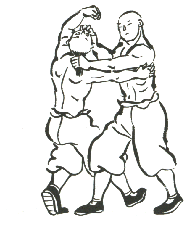 Block print from the Bubishi.